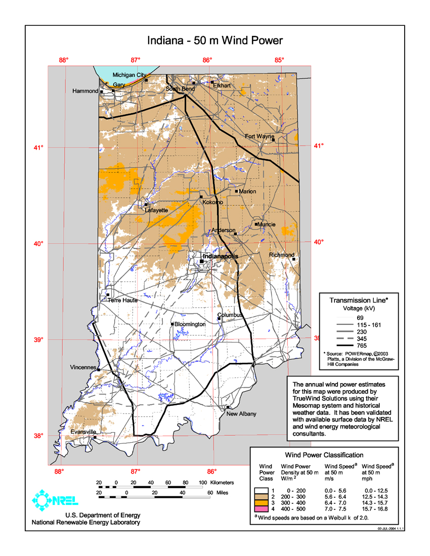 Average annual wind power distribution for Indiana, 50m height above ground, also showing location of existing electrical transmission lines